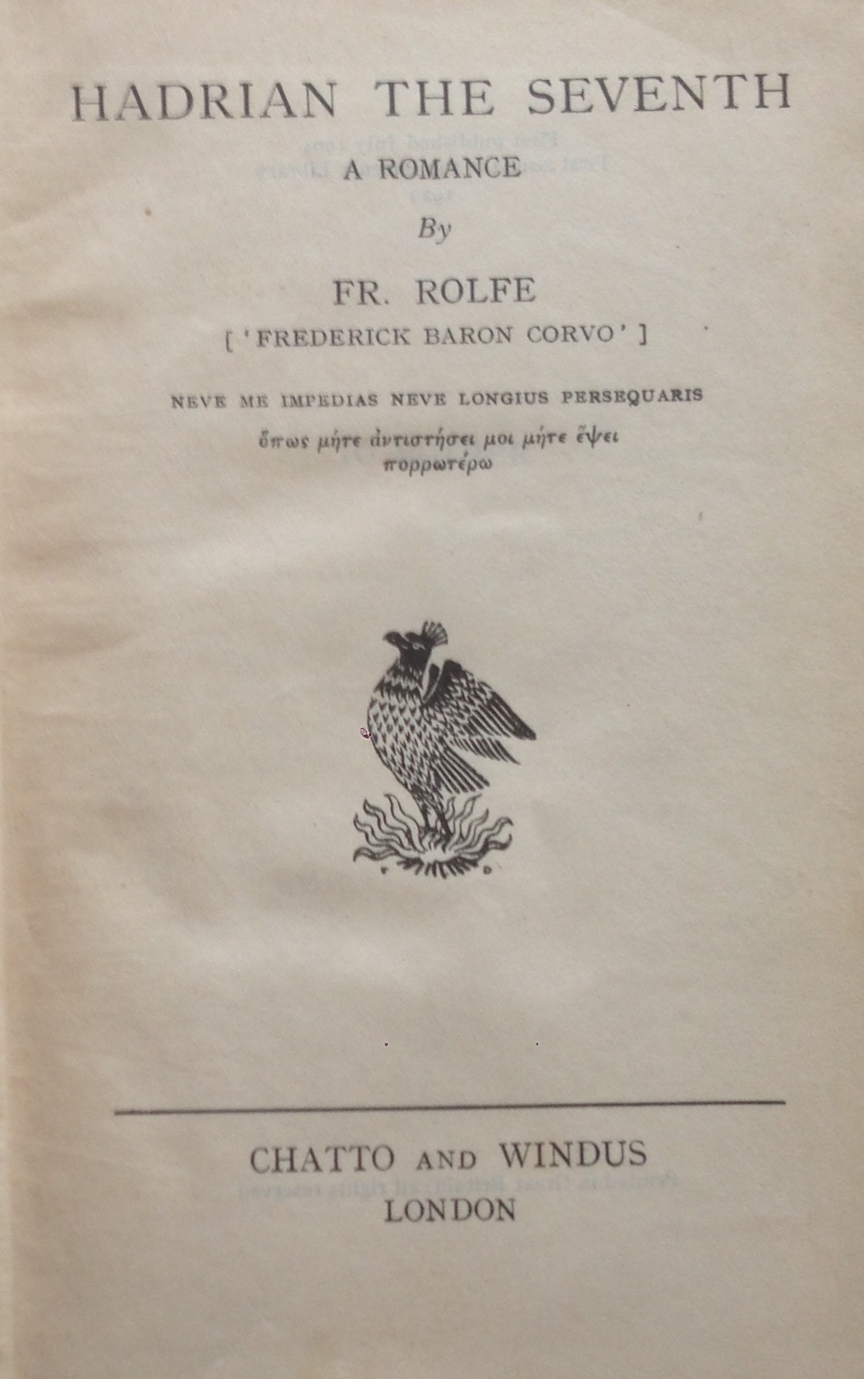 Title page of Hadrian VII, by Frederick Rolfe, published by Chatto & Windus